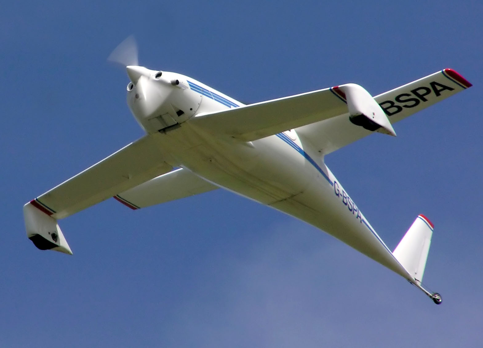 QAC Quickie Q2 (UK registration G-BSPA) at Kemble Airfield, Gloucestershire, England. Photographed by Adrian Pingstone in July 2005 and placed in the public domain.